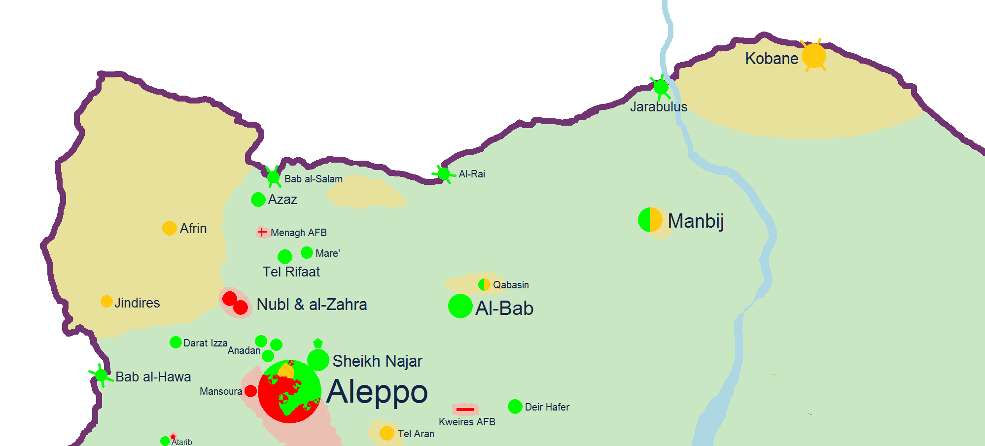 The situation in the northern Aleppo Governorate of Syria on 1 January 2013.